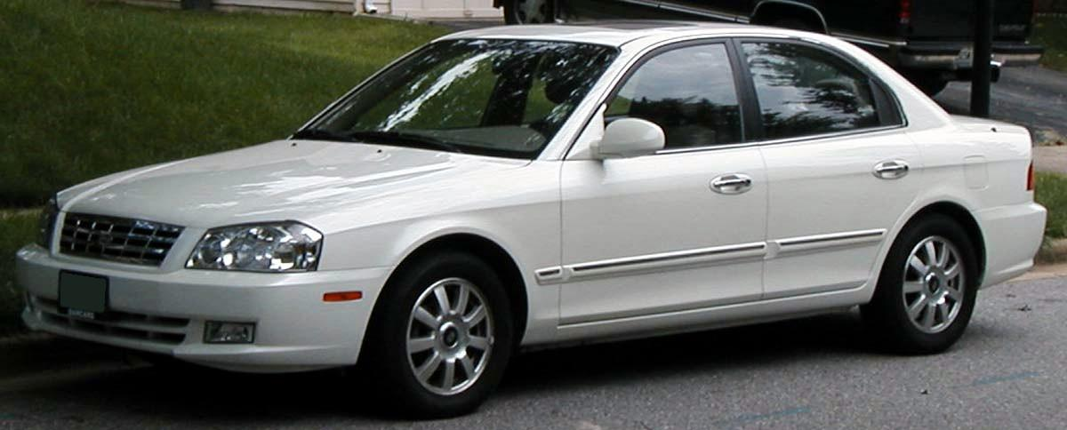 2001-2002 Kia Optima photographed in USA.